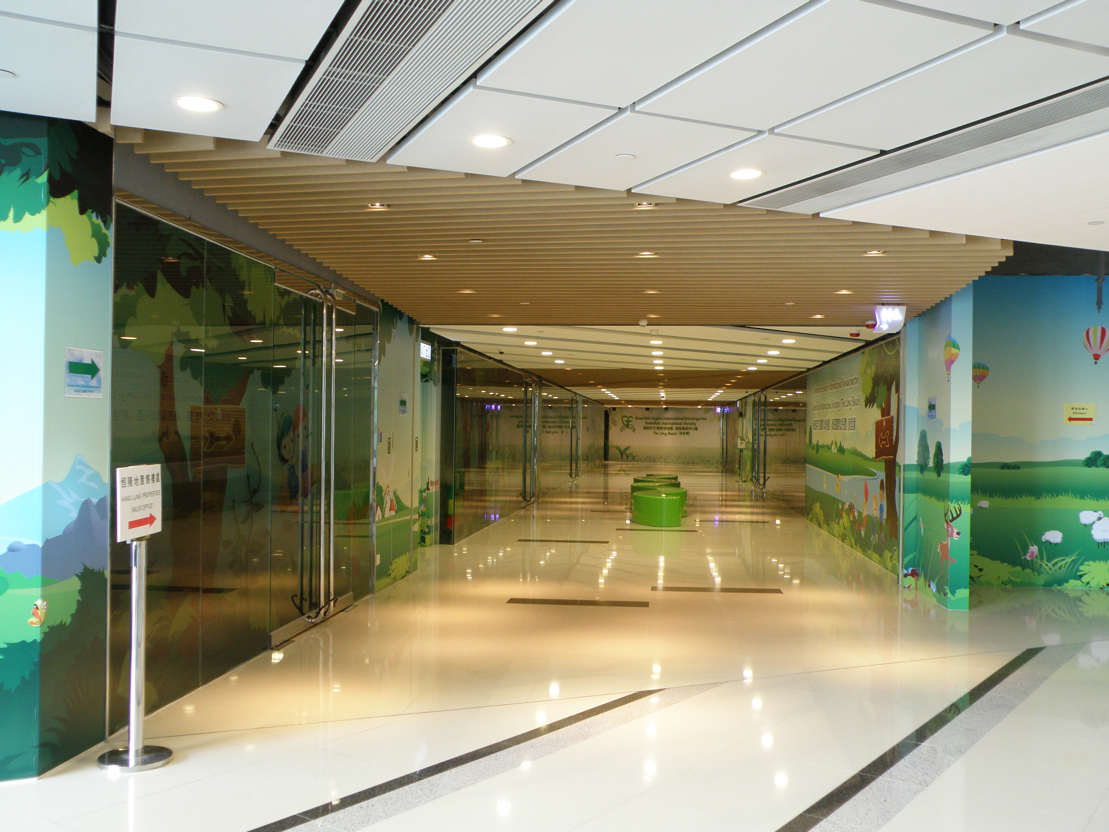 The Long Beach (shopping mall) in Tai Kok Tsui, Hong Kong.